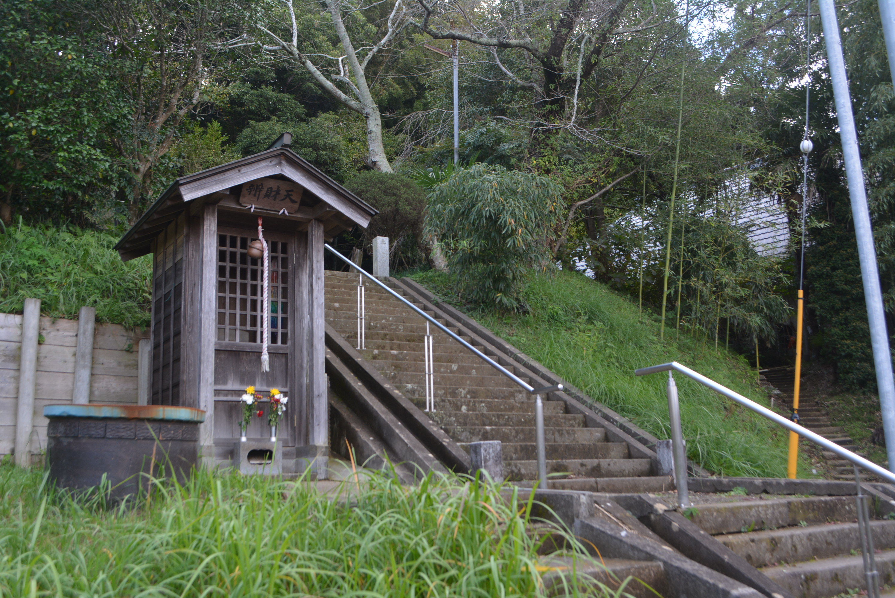 Josyo-ji temple and a well,Sawara,Katori city,Japan